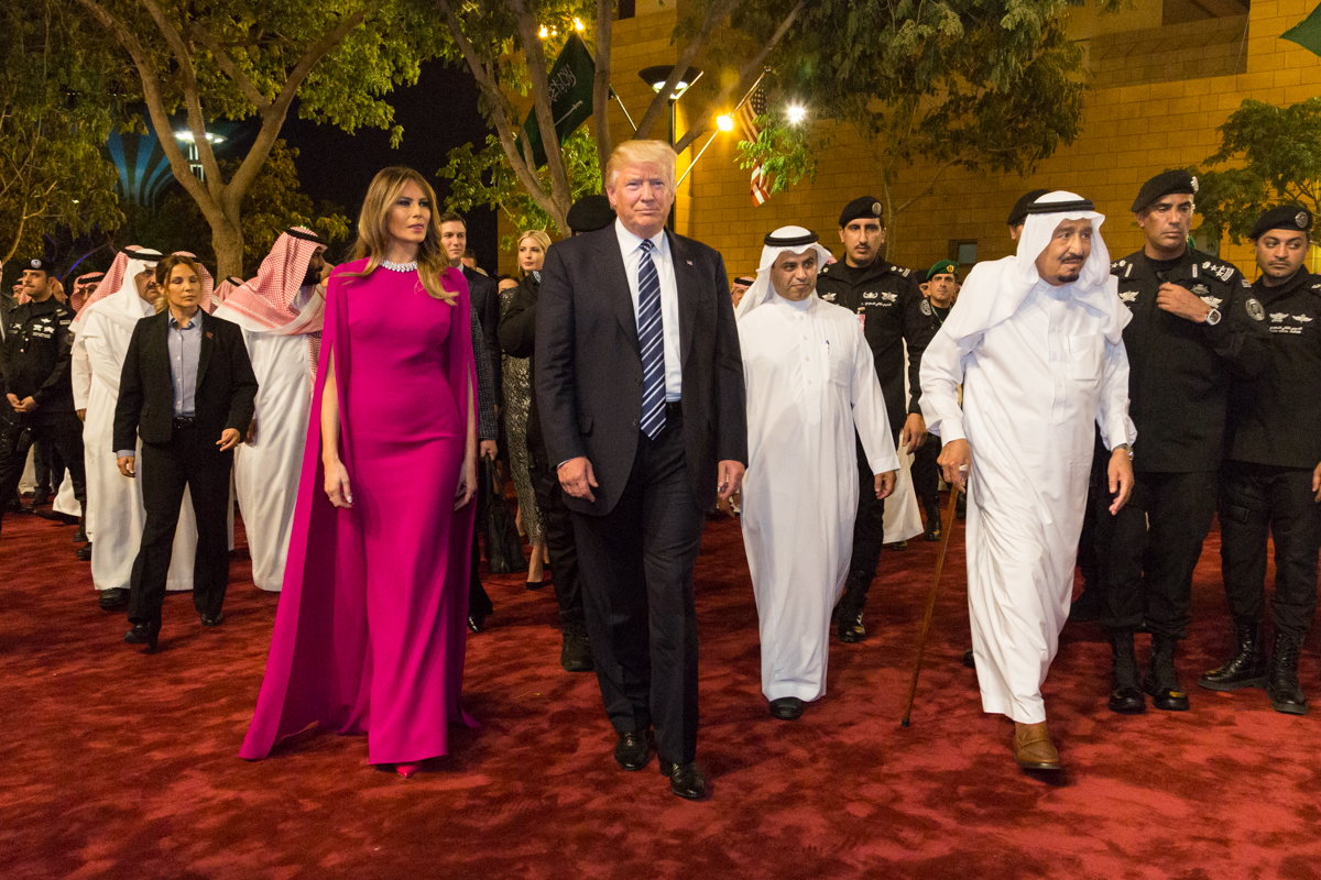 President Donald Trump and First Lady Melania Trump arrive to the Murabba Palace, escorted by King Salman bin Abdulaziz Al Saud of Saudi Arabia, Saturday evening, May 20, 2017, in Riyadh, Saudi Arabia, to attend a banquet in their honor. (Official White House Photo by Shealah Craighead)